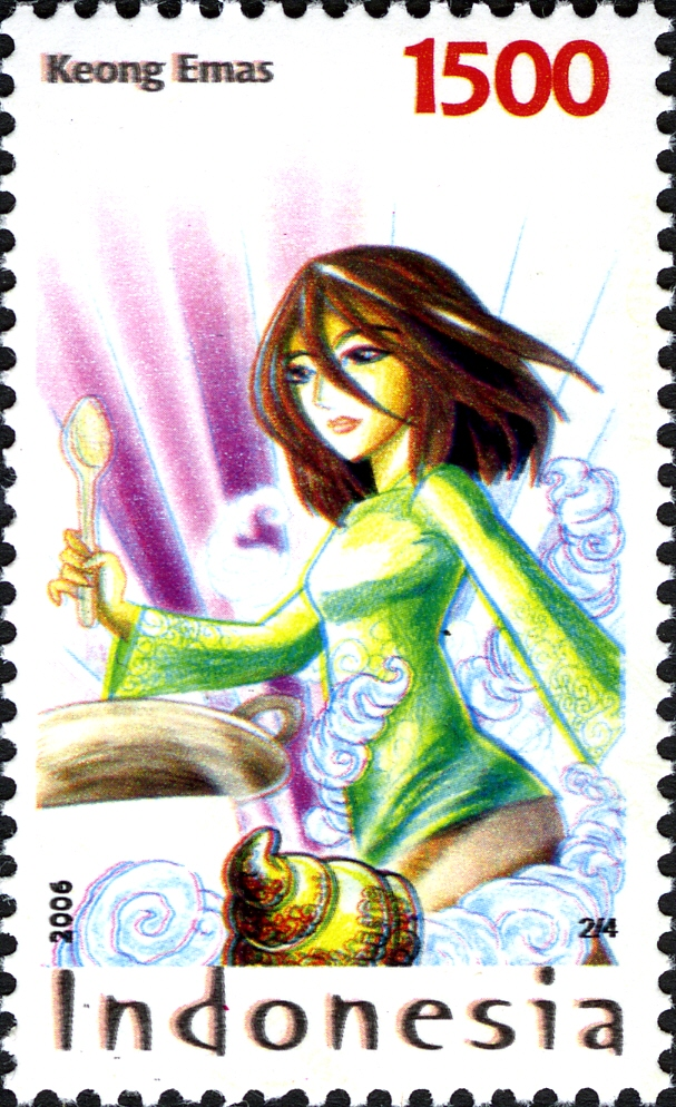 Stamps of Indonesia